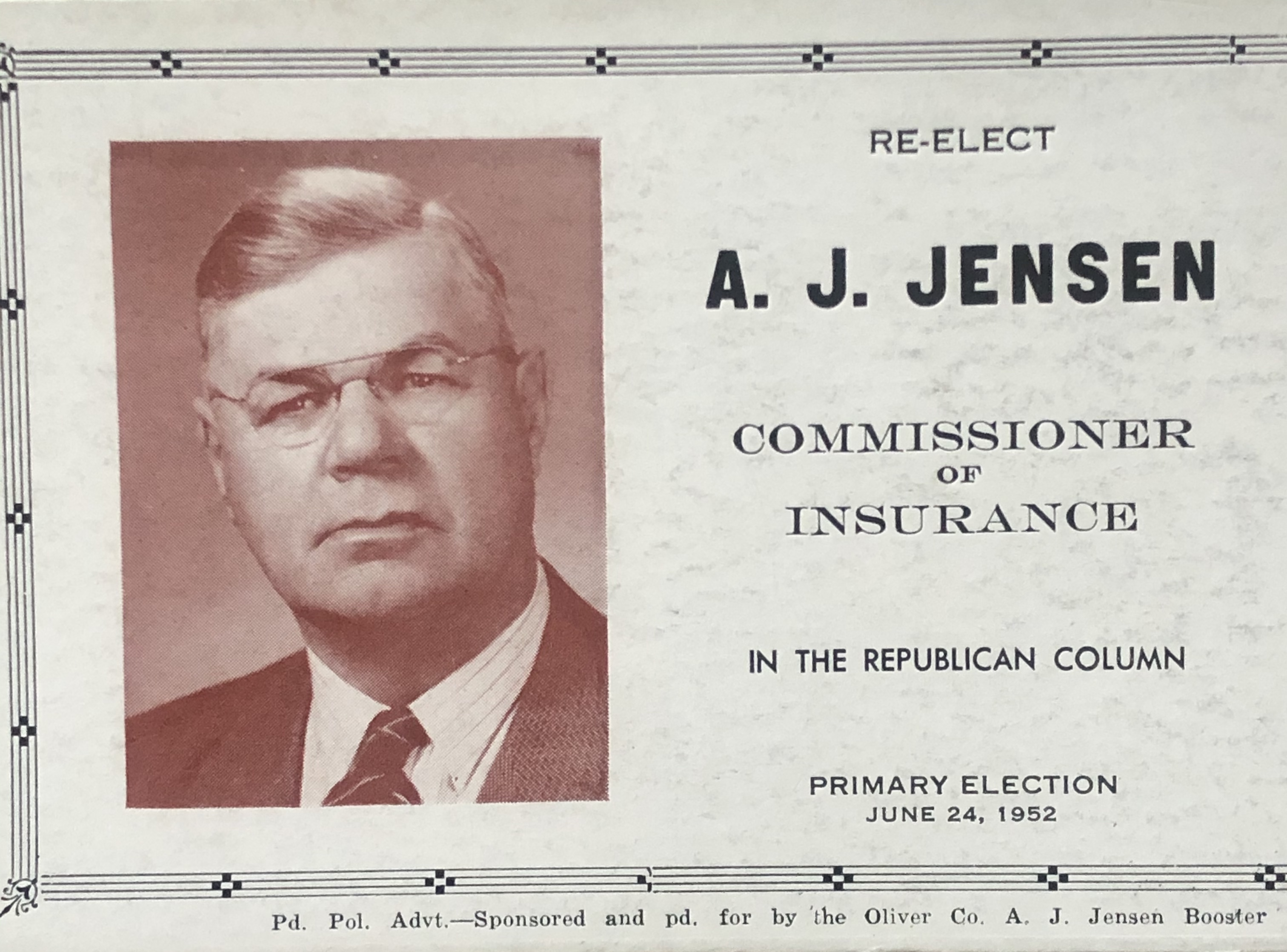 This is a Re-election Ink Blot card which was distributed for the 1952 Primary Election on June 24, 1952. Supplied by A.J. Jensen booster the Oliver Co.